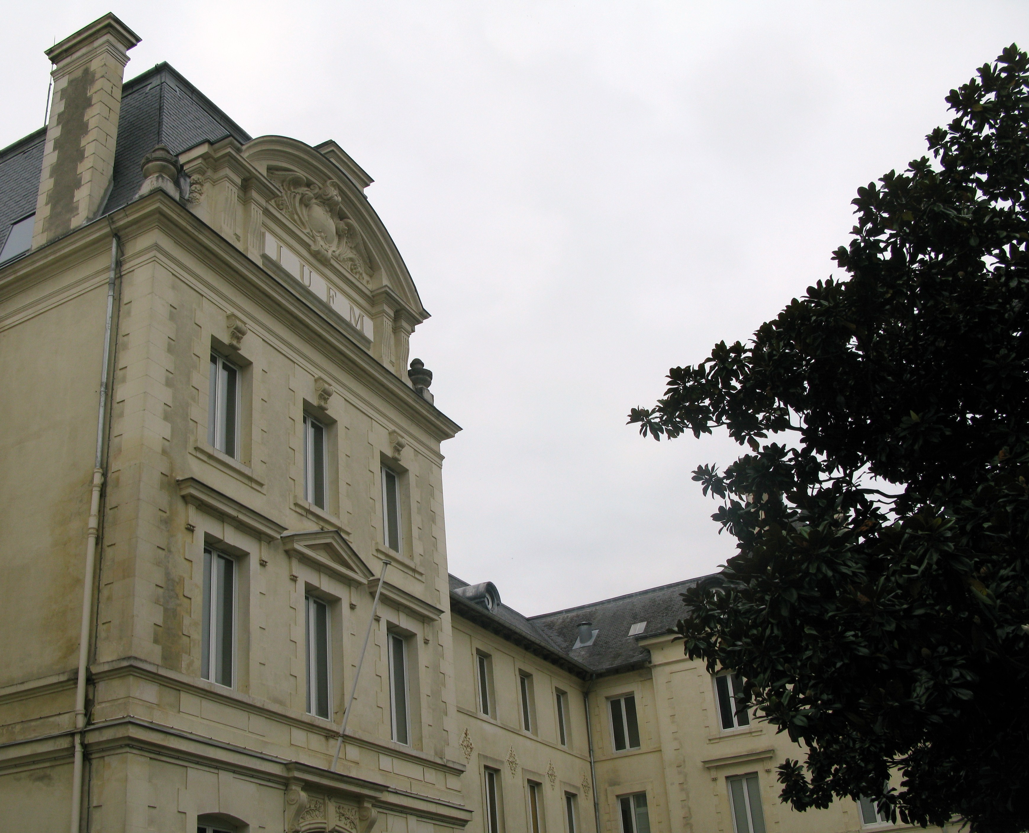 IUFM (center for teachers training) in Rennes, school belonging to the University of Western Brittany.